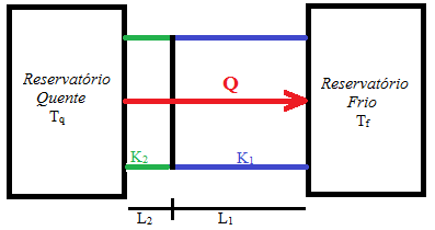 Heat. Condução placa composta